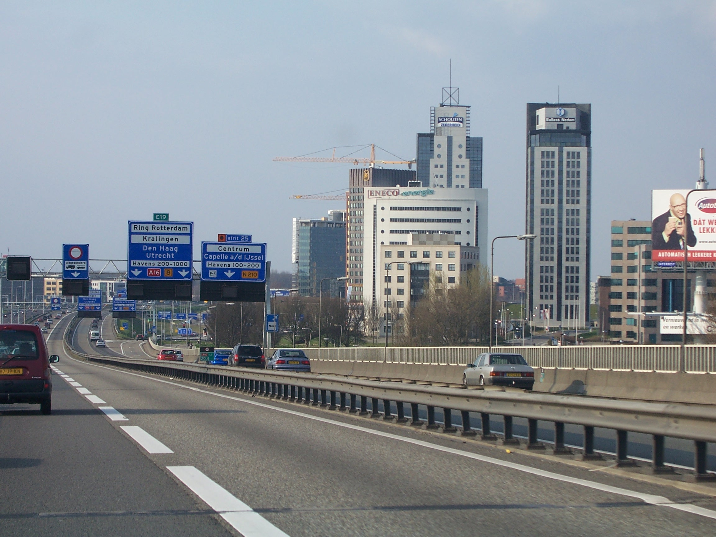 The Rivium business park in Capelle aan den IJssel, the Netherlands as seen from the A16